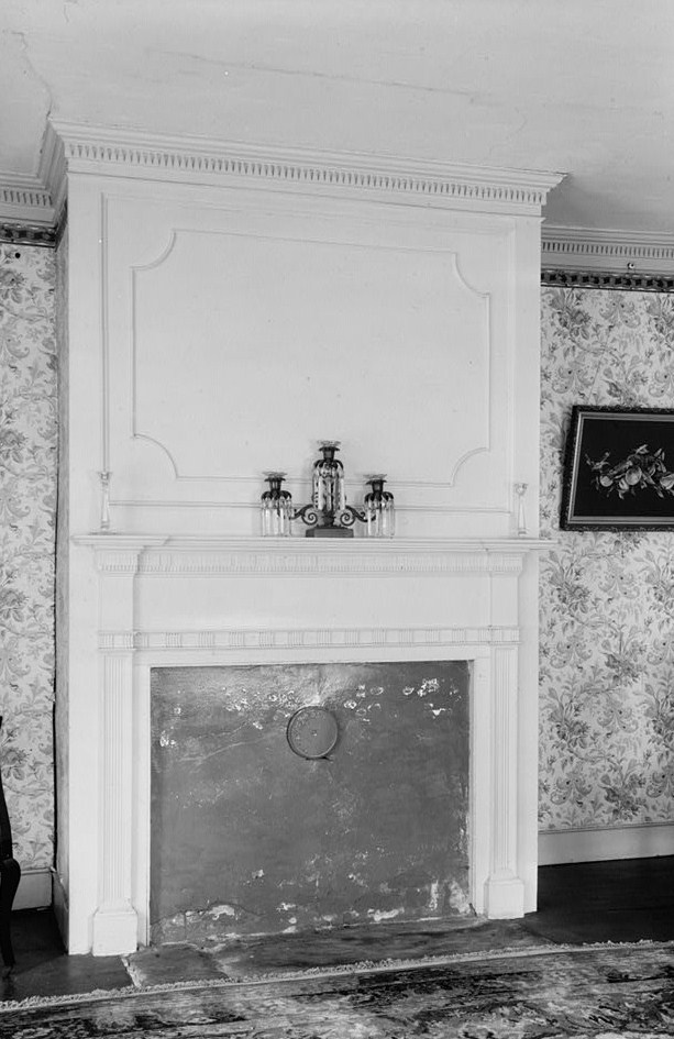 Elisha Payne House, Mantel, Canterbury (Windham County, Connecticut). 1940 photo from the Historic American Buildings Survey of Connecticut. HABS CONN,8-CANBU,1-5; cropped. This file comes from the Historic American Buildings Survey (HABS), Historic American Engineering Record (HAER) or Historic American Landscapes Survey (HALS). These are programs of the National Park Service established for the purpose of documenting historic places. Records consist of measured drawings, archival photographs, and written reports. When reusing please credit: Library of Congress, Prints & Photographs Division, CT-163 This tag does not indicate the copyright status of the attached work. A normal copyright tag is still required. See Commons:Licensing. This work is in the public domain in the United States because it is a work prepared by an officer or employee of the United States Government as part of that person’s official duties under the terms of Title 17, Chapter 1, Section 105 of the US Code. Note: This only applies to original works of the Federal Government and not to the work of any individual U.S. state, territory, commonwealth, county, municipality, or any other subdivision. This template also does not apply to postage stamp designs published by the United States Postal Service since 1978. (See § 313.6(C)(1) of Compendium of U.S. Copyright Office Practices). It also does not apply to certain US coins; see The US Mint Terms of Use. This file has been identified as being free of known restrictions under copyright law, including all related and neighboring rights.